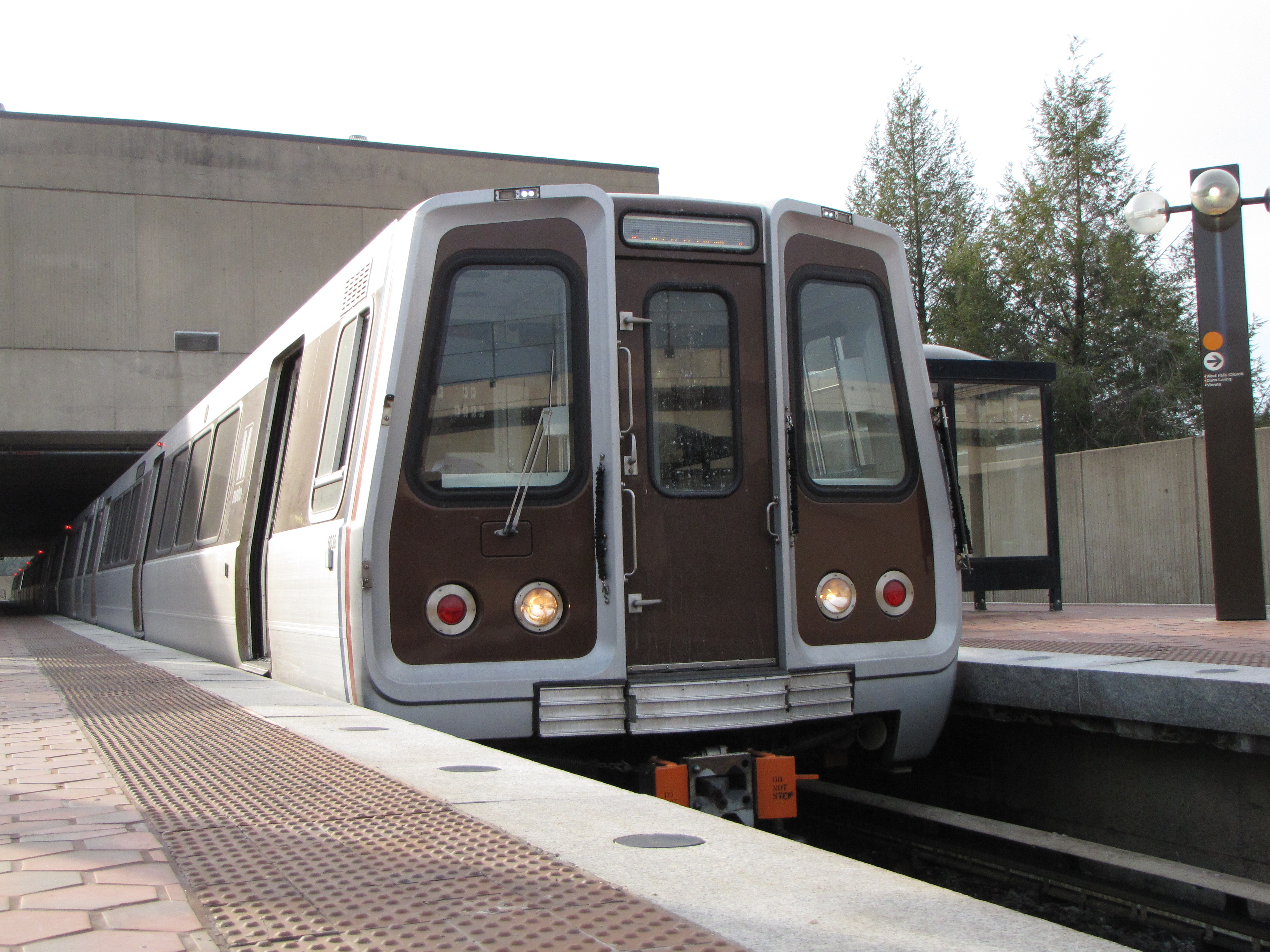 Alstom 6038 services the West Falls Church-VT/UVA station from the center track due to single-tracking between Vienna and West Falls Church stations.